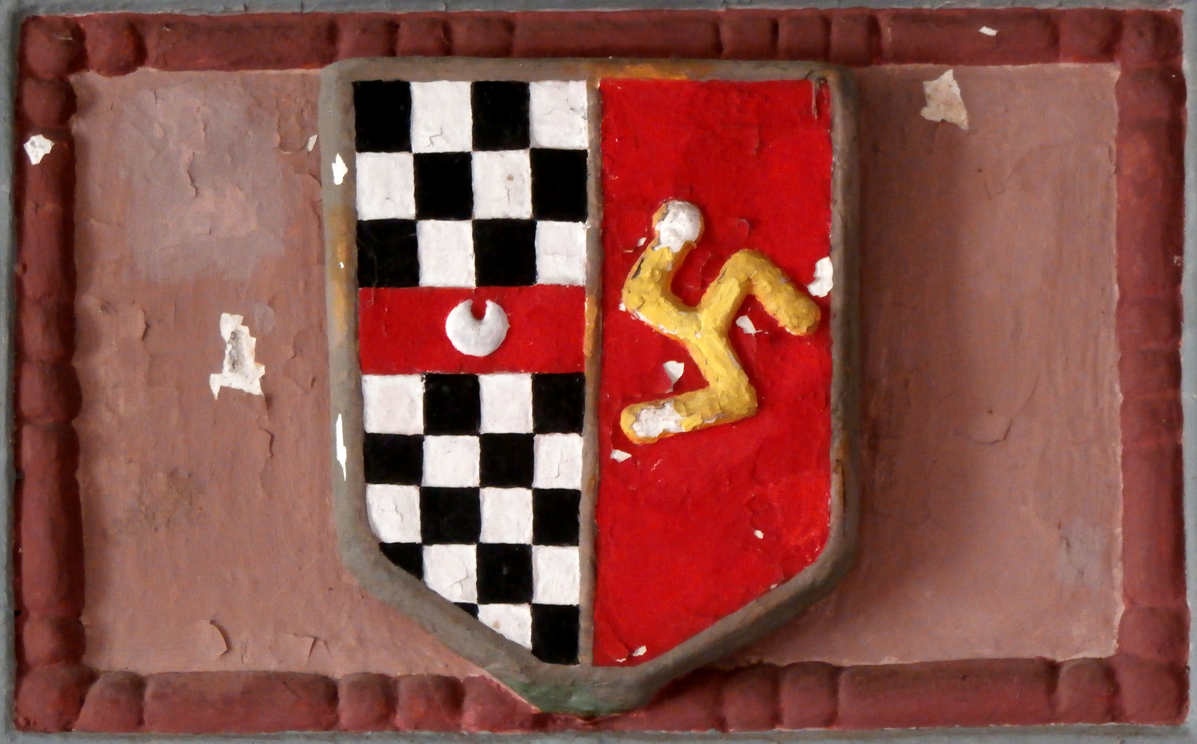 1615 plaster overmantel in the "Inner Room", next to the Great Hall in Hawkridge Barton, Chittlehampton, Devon, showing the arms of Acland (Chequy argent and sable, a fesse gules) impaling Tremayne (Gules, three dexter arms conjoined at the shoulders and flexed in triangle or the fists clenched argent), representing the 1615 marriage of Baldwin II Acland (1593-1659) and Elizabeth Tremayne. It consists of "a strapwork cartouche with small heads probably of Cain and Abel to each side flanked by foliage and figures of Adam and Eve, with the serpent above".(Listed building text)